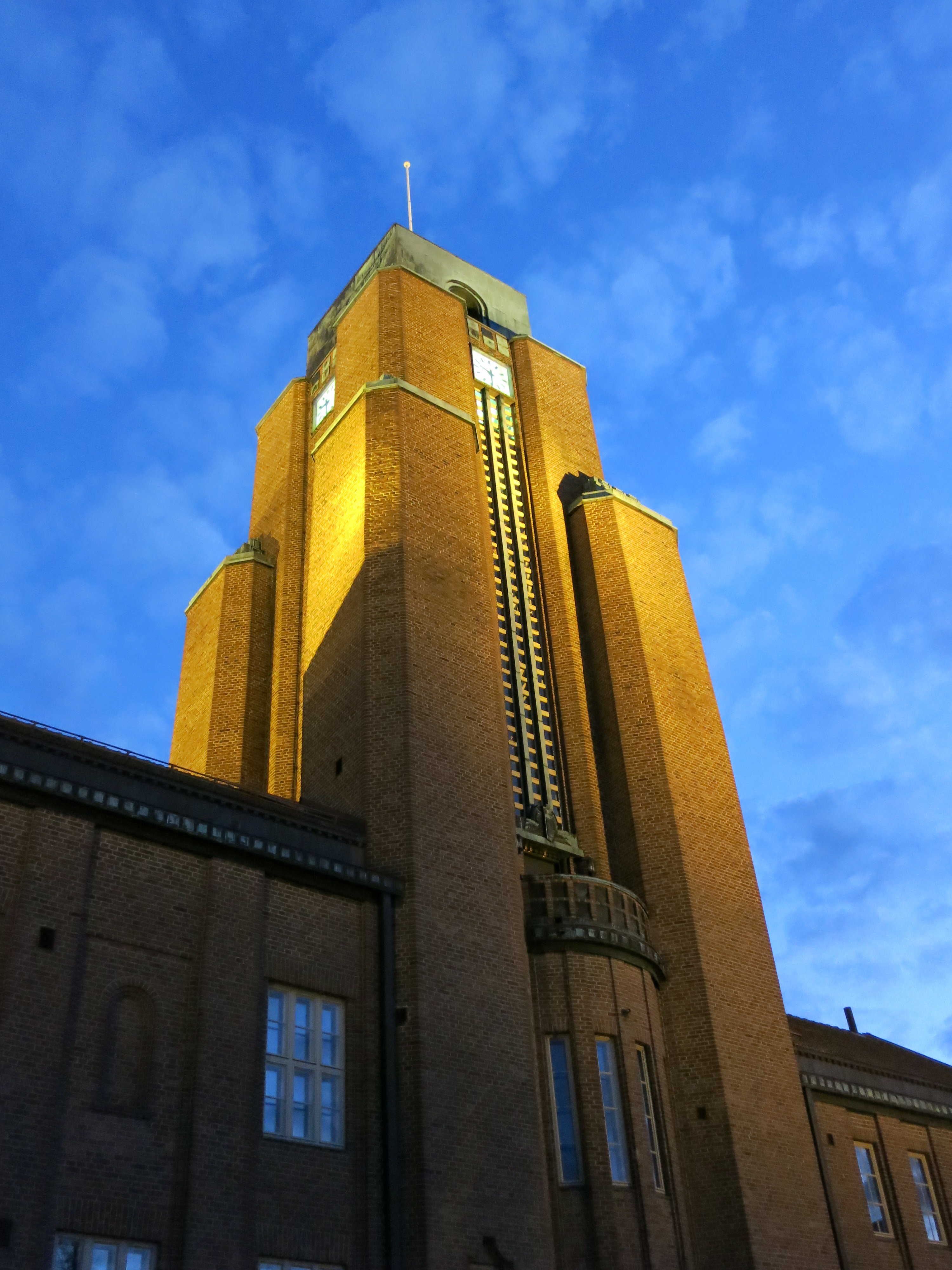 Tower of Lahti Town Hall, photographed in April 2014.